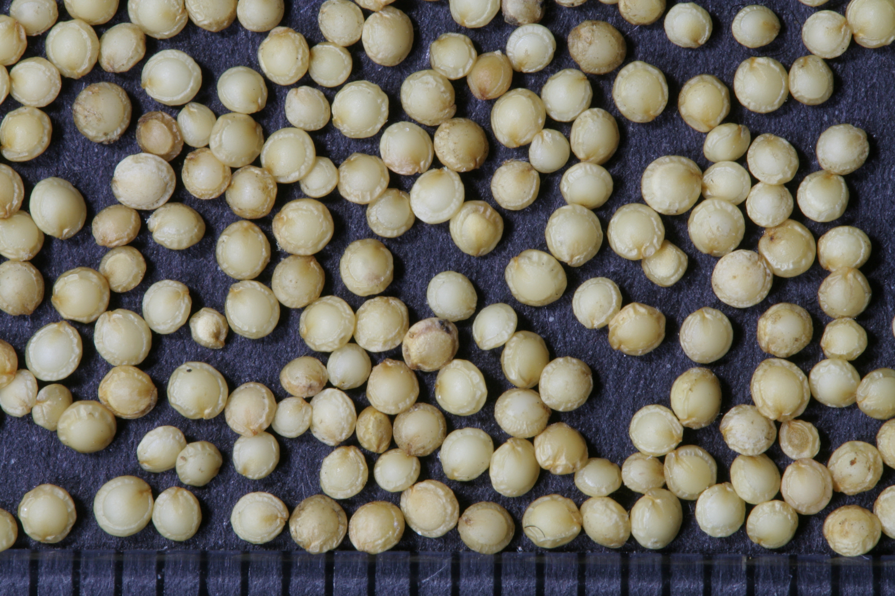 amaranth